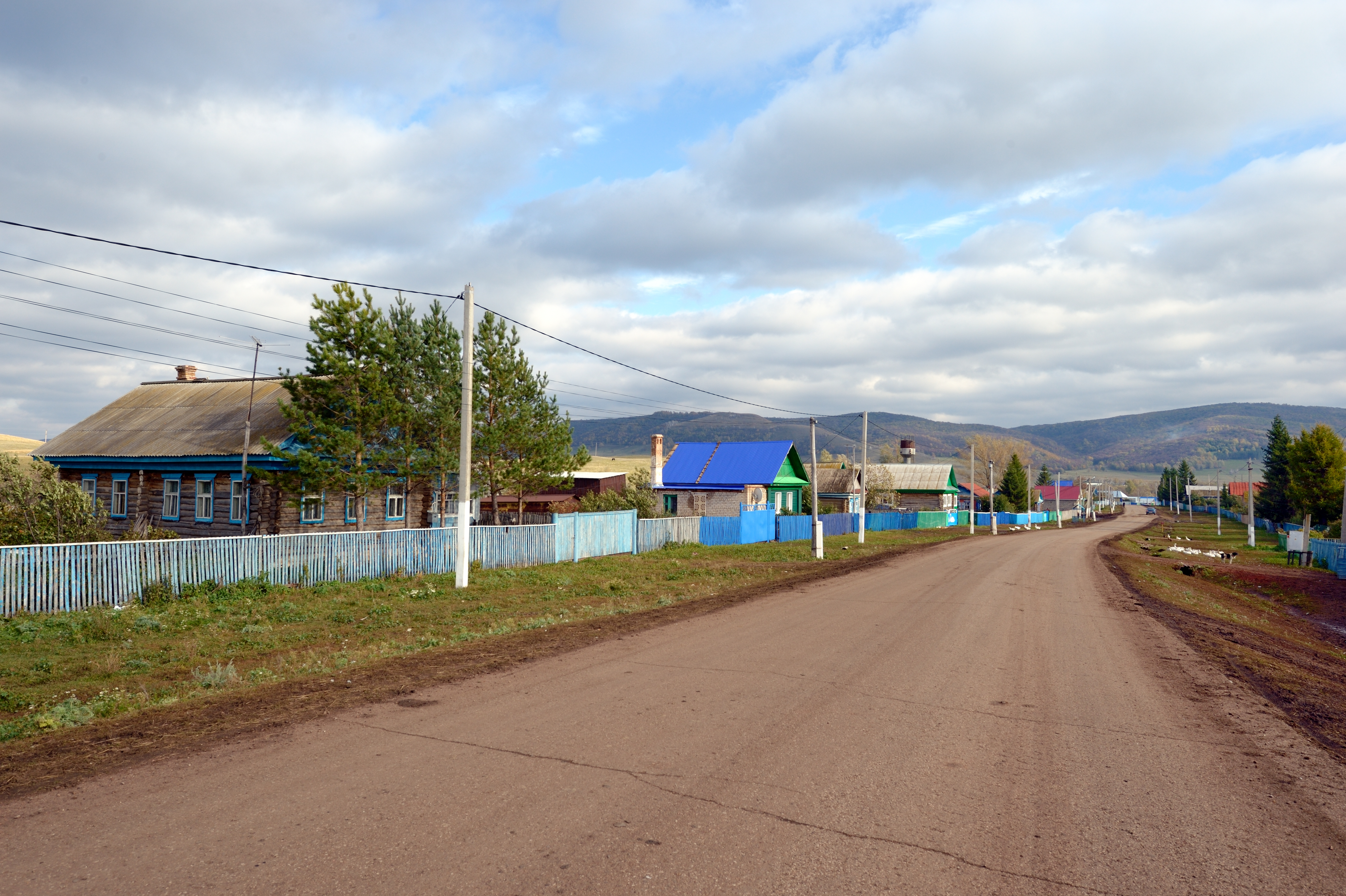 Bashkortostan